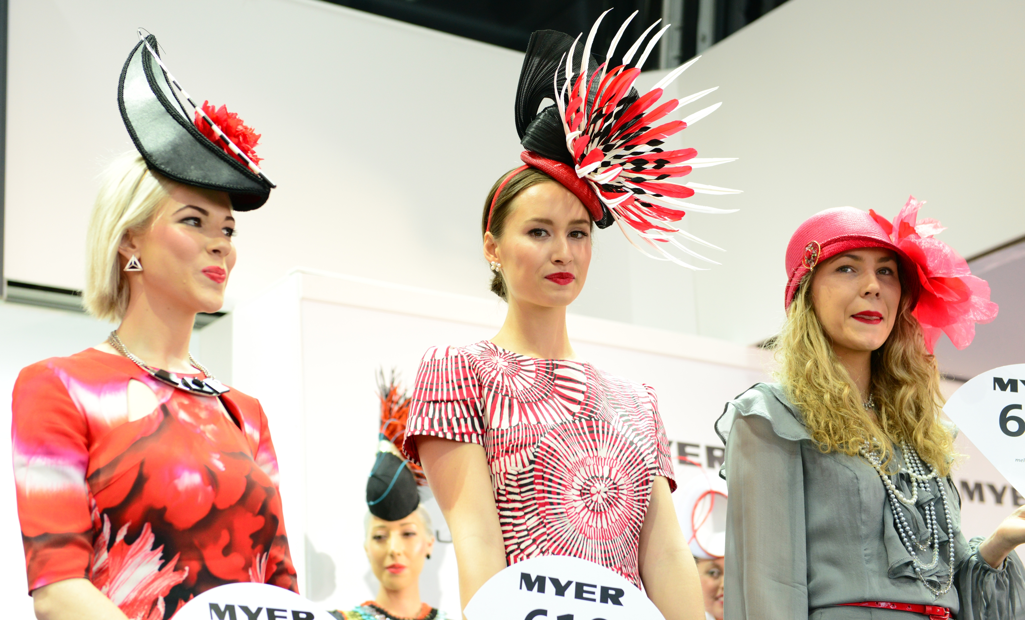 It looks like red was the hit in the finals. 2nd Place Christine Spielmann (left), Winner Chloe Moo (middle) and runner up Brooke Walter (right)